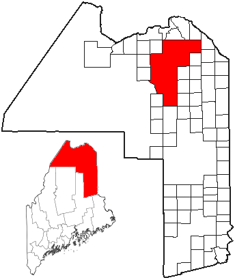 Adapted from U.S. Census Bureau maps (American FactFinder) and Wikipedia's ME county maps by Bumm13.